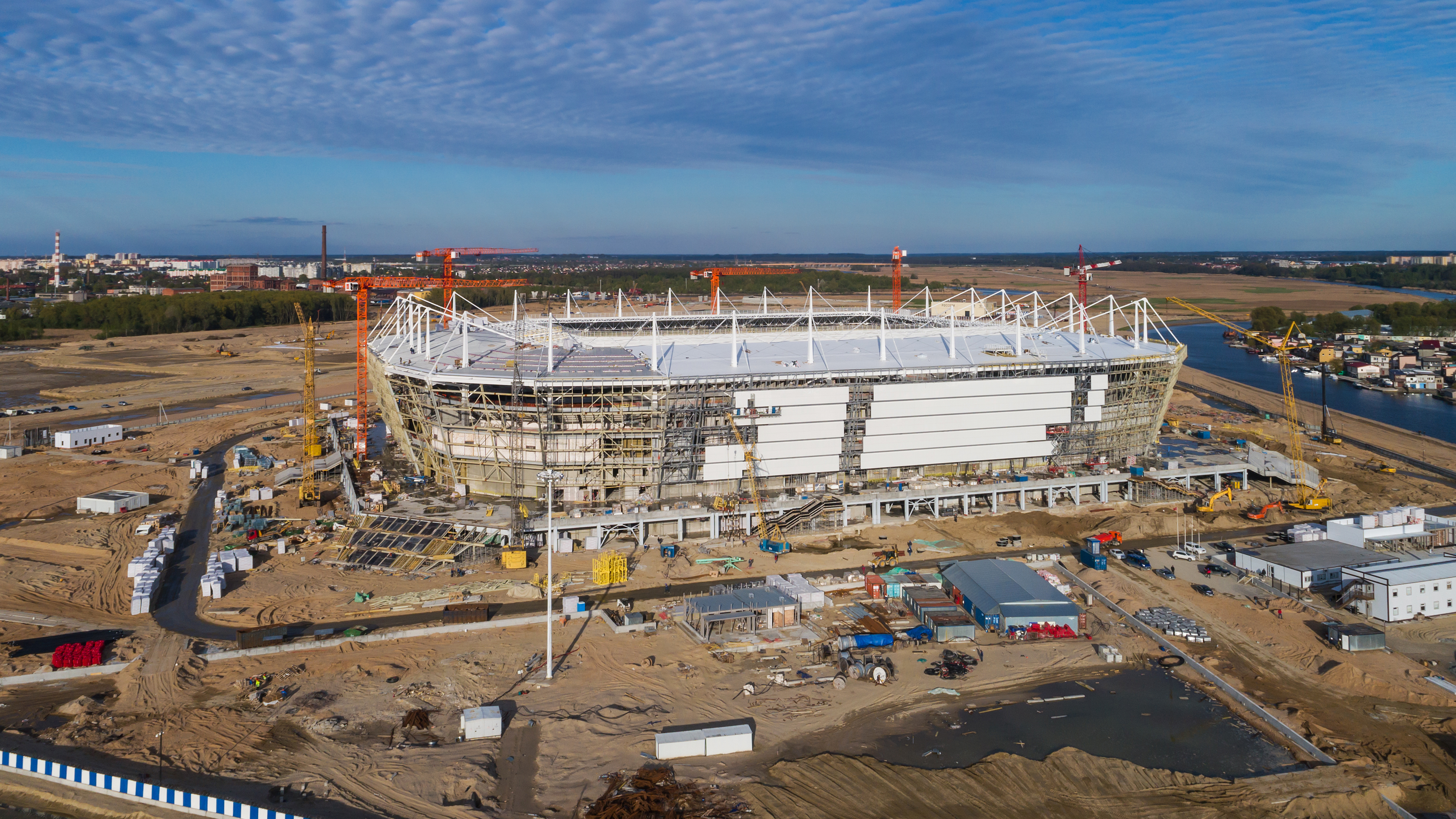 Construction site of FIFA World Cup 2018 stadium in Kaliningrad formerly Königsberg, Kaliningrad Oblast (Russia).